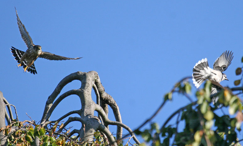 Merlin (Falco columbarius columbarius) chasing a Northern Blue Jay (Cyanocitta cristata bromia). Mount Auburn Cemetery, Massachusetts, USA.